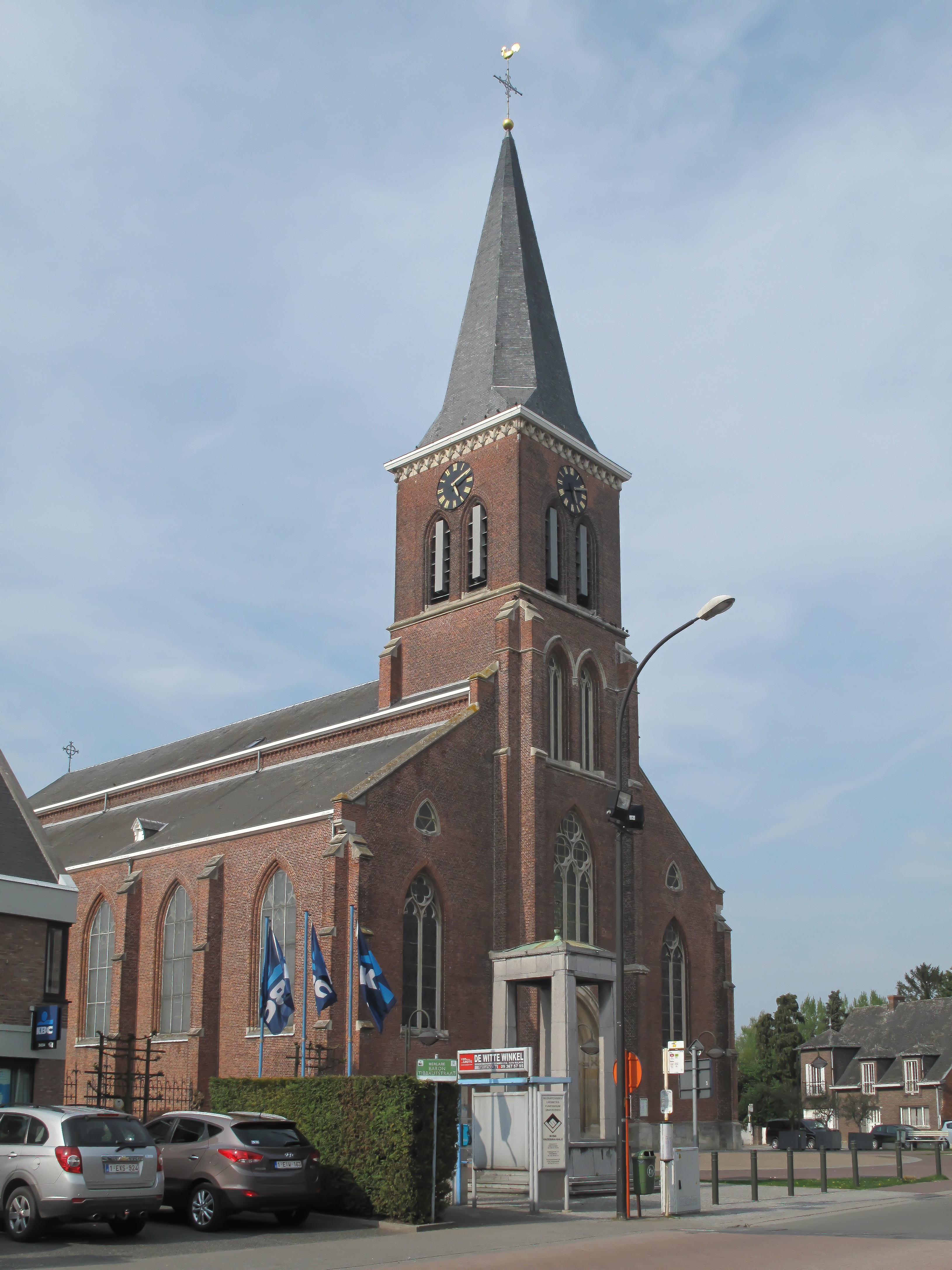 Overmere, church: Onze Lieve Vrouw Hemelvaartkerk